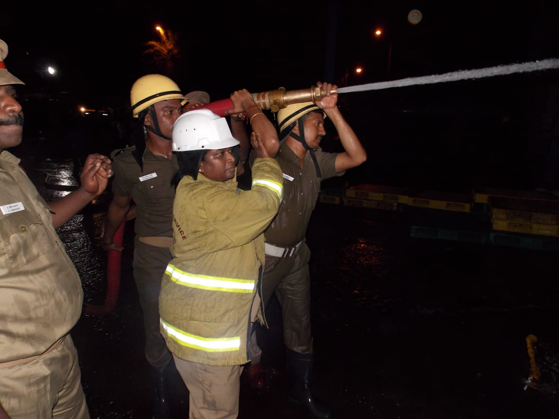 during Firefighting